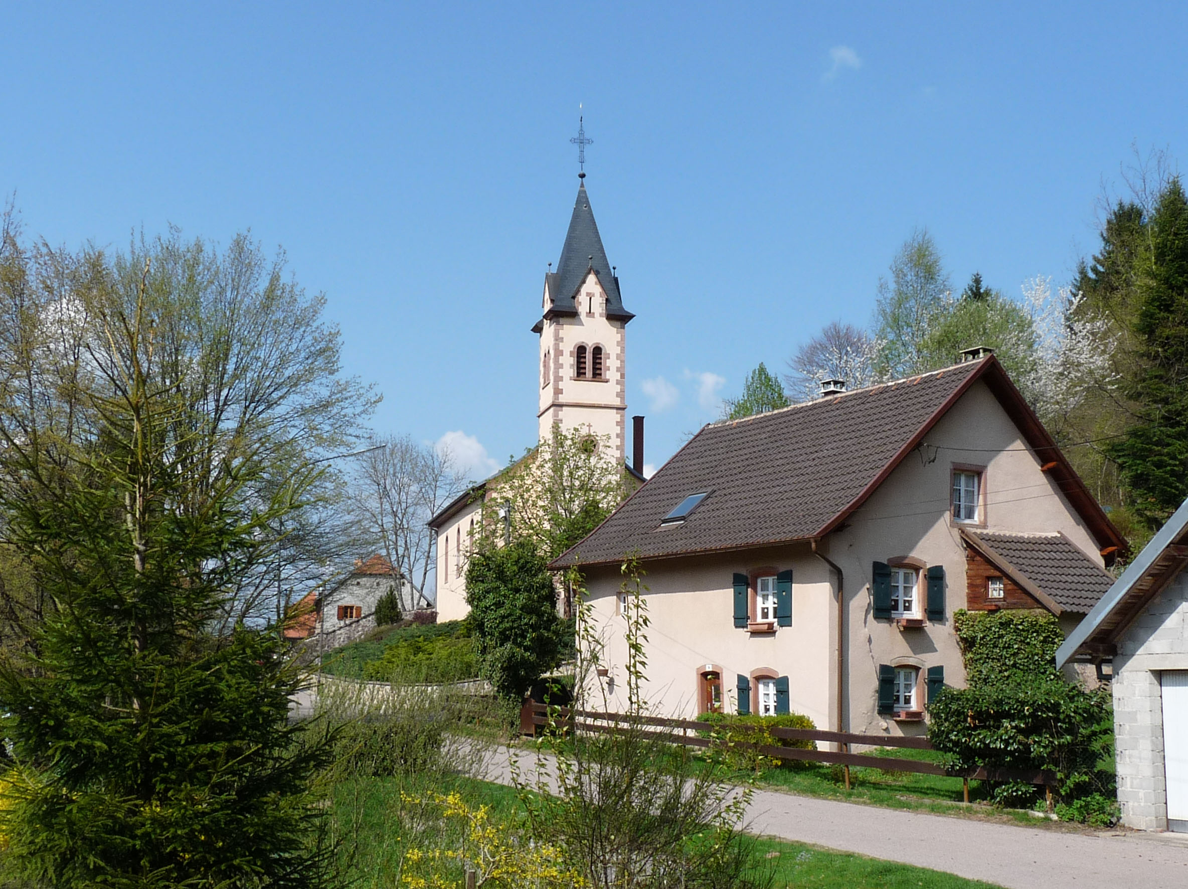 Blancherupt (Bas-Rhin)